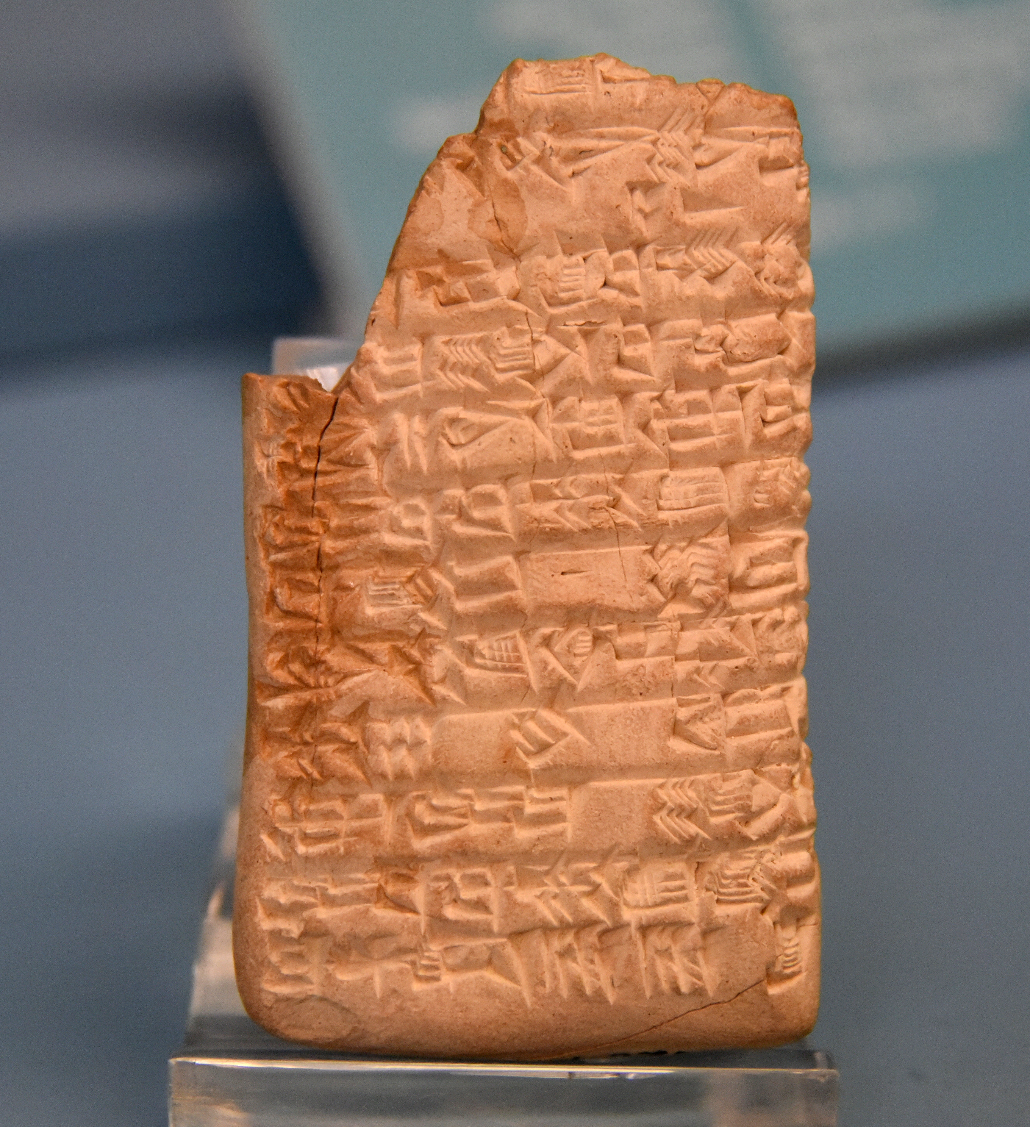 A verdict about murder. Terracotta tablet from Girsu (modern-day Tel Telloh), Southern Mesopotamia, Iraq. Neo-Sumerian (Ur III) Period, 2112-2004 BCE. Ancient Orient Museum, Istanbul.